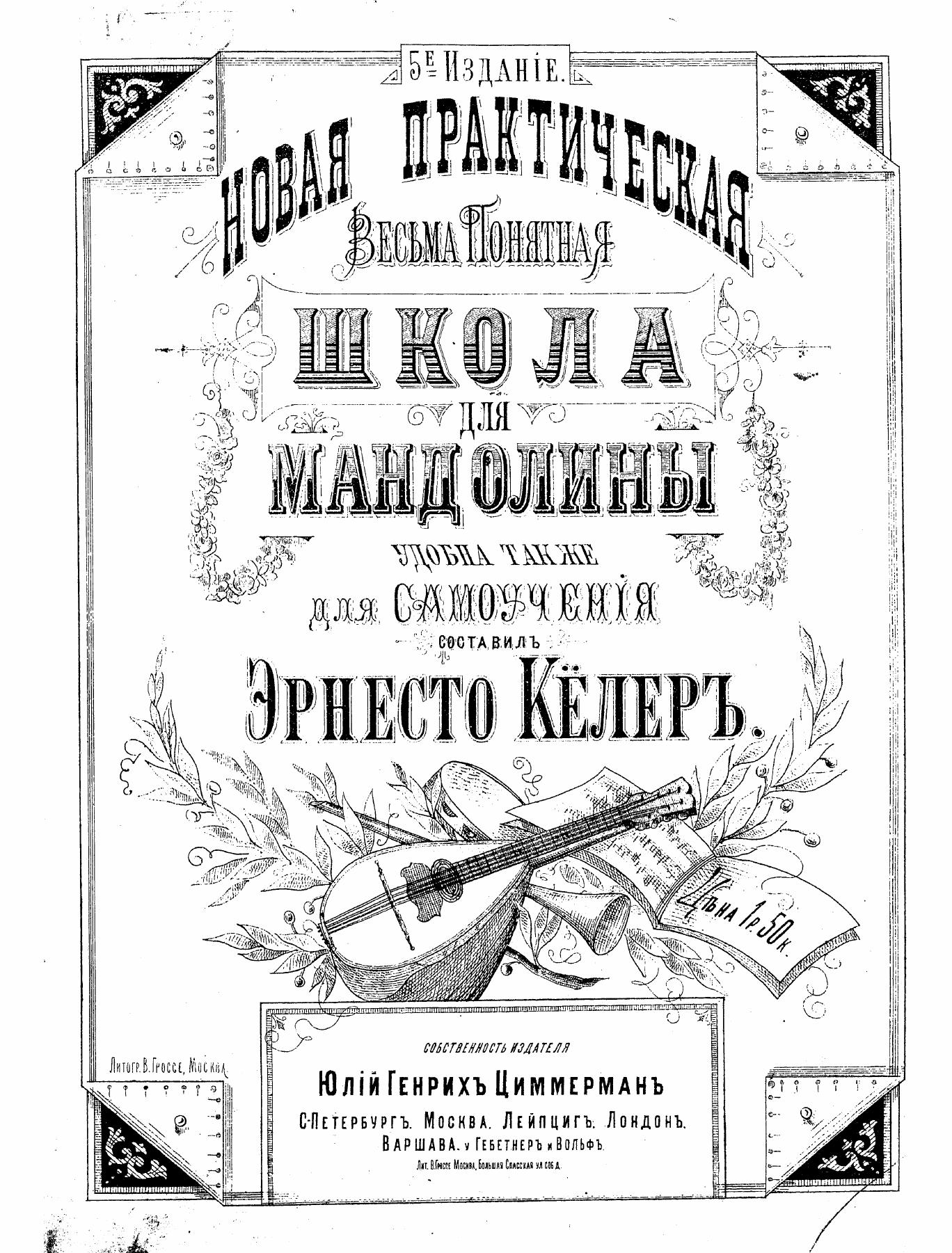 Book written by Ernesto Köhler. Cover of what may be the first mandolin method published in the Russian language. Called in the English publication "Self Instructor for the Mandolin", it was named "Новая практическая весьма понятная школа для мандолины" (A new and practical school for Mandolin) in Russian. German-market version (Mandolinen-Schule. Neueste, praktische u.leicht verständliche Methode) was first published in 1887, according to Michael Reichenbach, historian of Mandoisland.de.